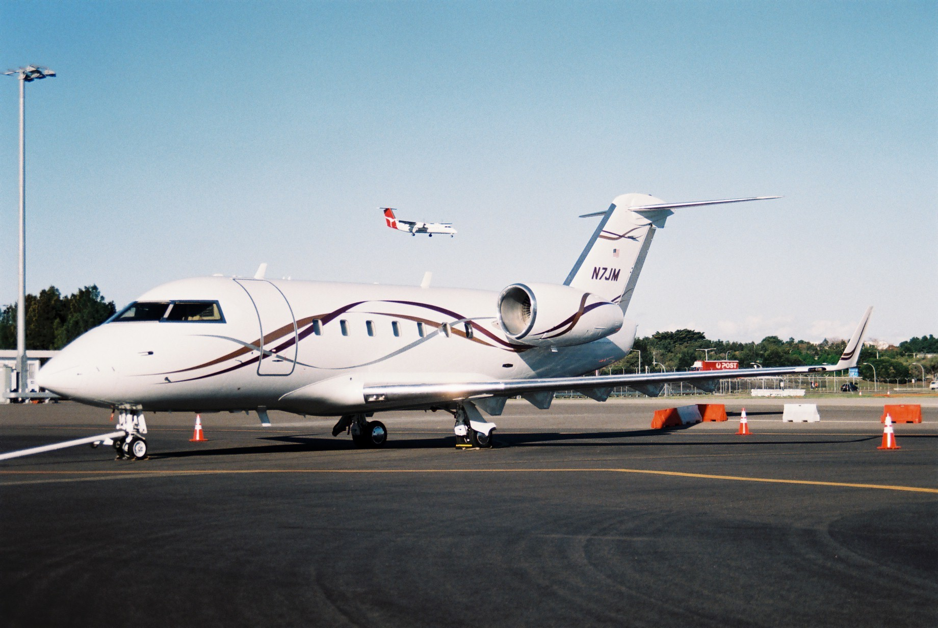 This Canadair Challenger was the personal aircraft of Joyce Meyer at the time of her visit to Sydney, Australia in July 2005. It has since been replaced by a Gulfstream IV. Photo of N7JM taken by YSSYguy at Sydney Airport in July 2005 using a 35mm film SLR and converted to digital format at time of film processing. Image uploaded for use in the article about Joyce Meyer.